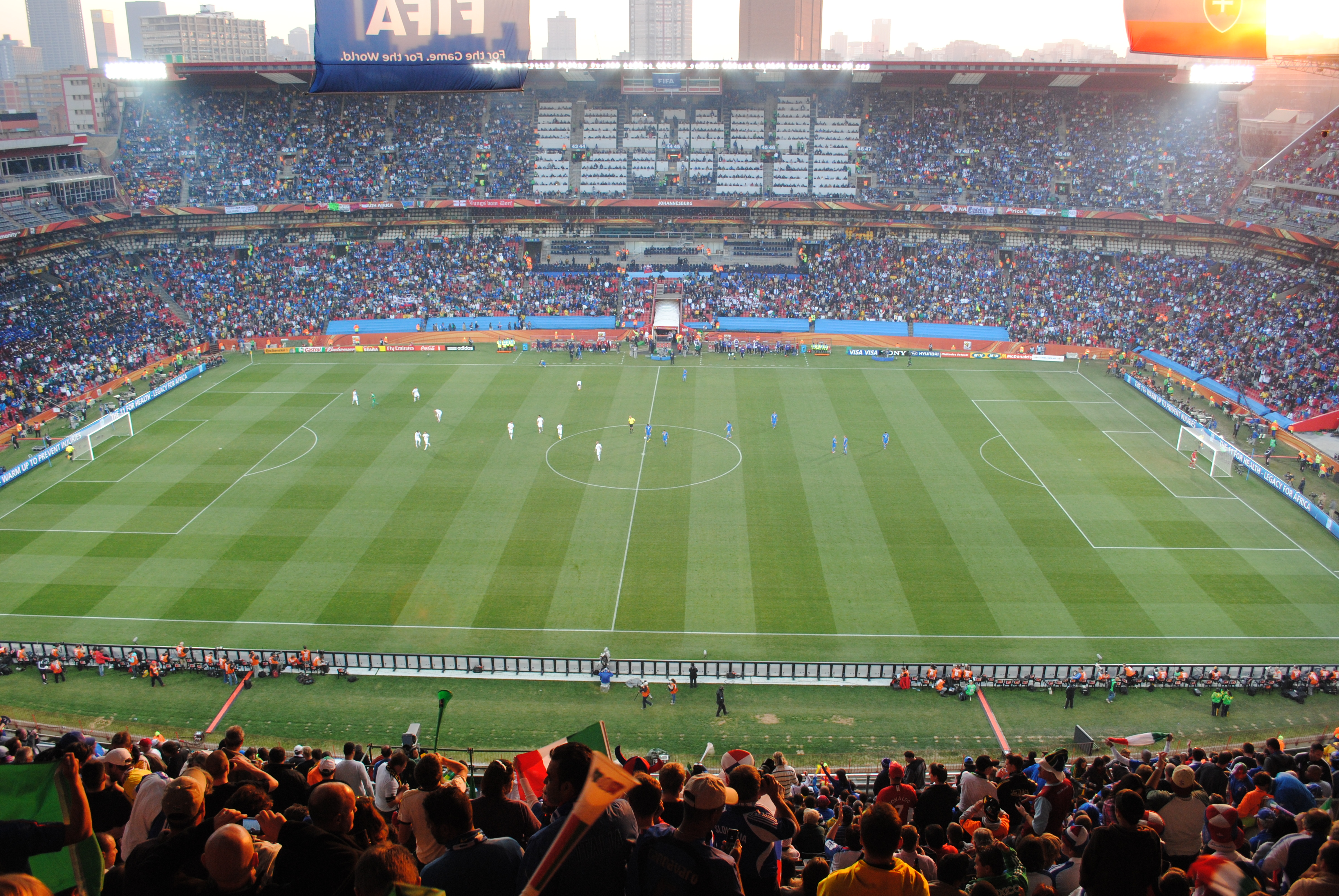 Second half kick-off in the game between Slovakia and Italy at FIFA World Cup 2010, 24 June 2010, Ellis Park Stadium, Johannesburg